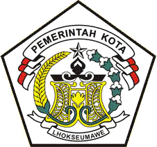 Coat of Arms (Lambang) of City (Kota) Lhokseumawe, Provinsi Nanggroe Aceh Darussalam (on Sumatra), Indonesia